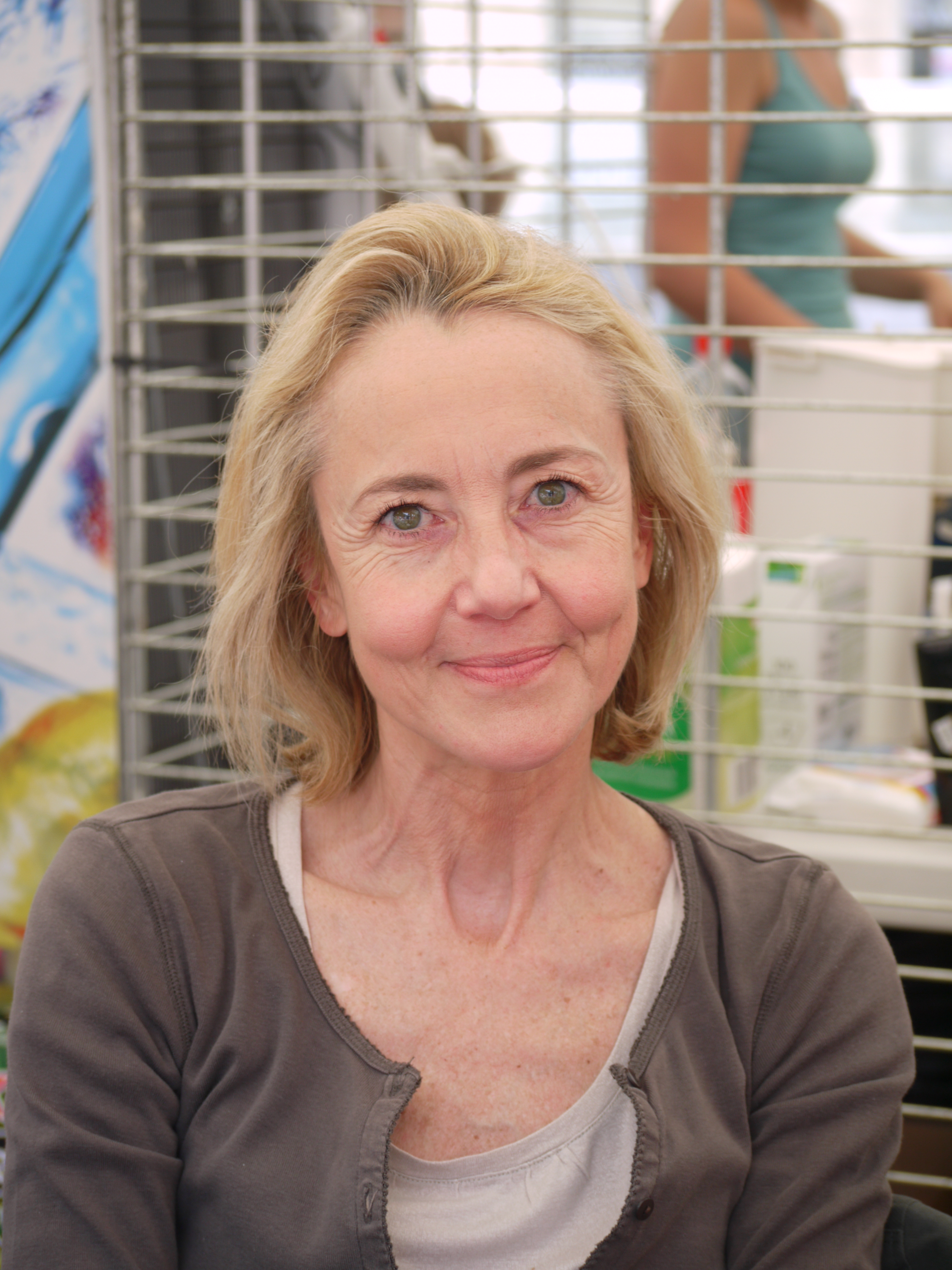 Comédie du Livre 2010 edition of Montpellier